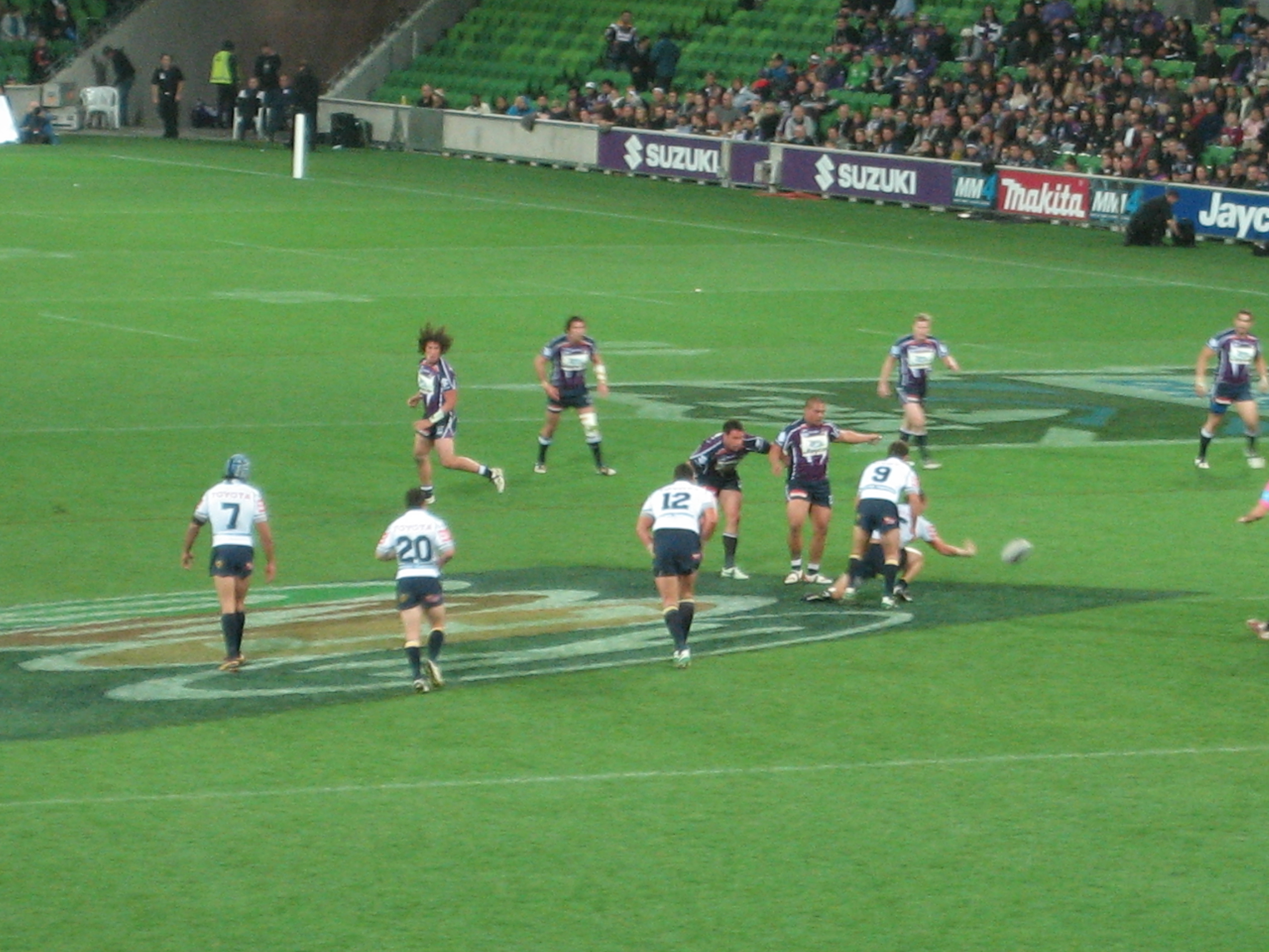 Rugby league being played on AAMI Park